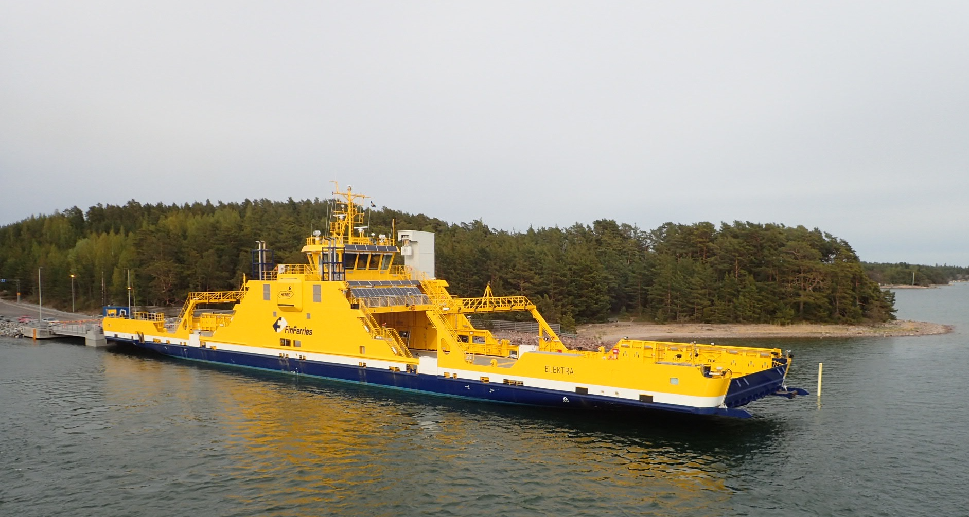 Picture of the hybrid ferry Elektra connecting the main land with the islands of Nagu in the south-west of Finland. One of the free ferries along the Archipelago Trail.